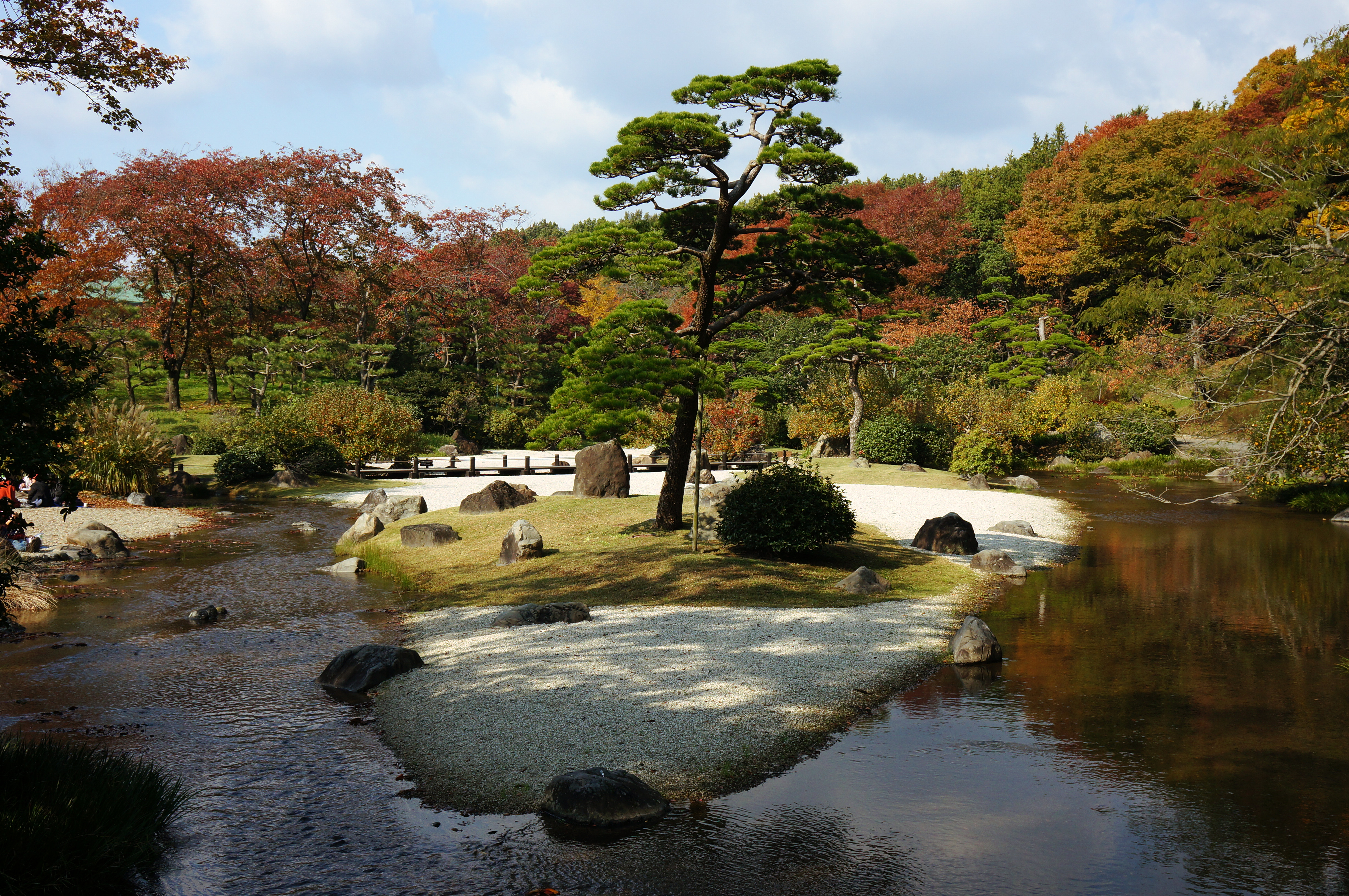 At Expo '70 Commemorative Park in Suita, Osaka prefecture, Japan.